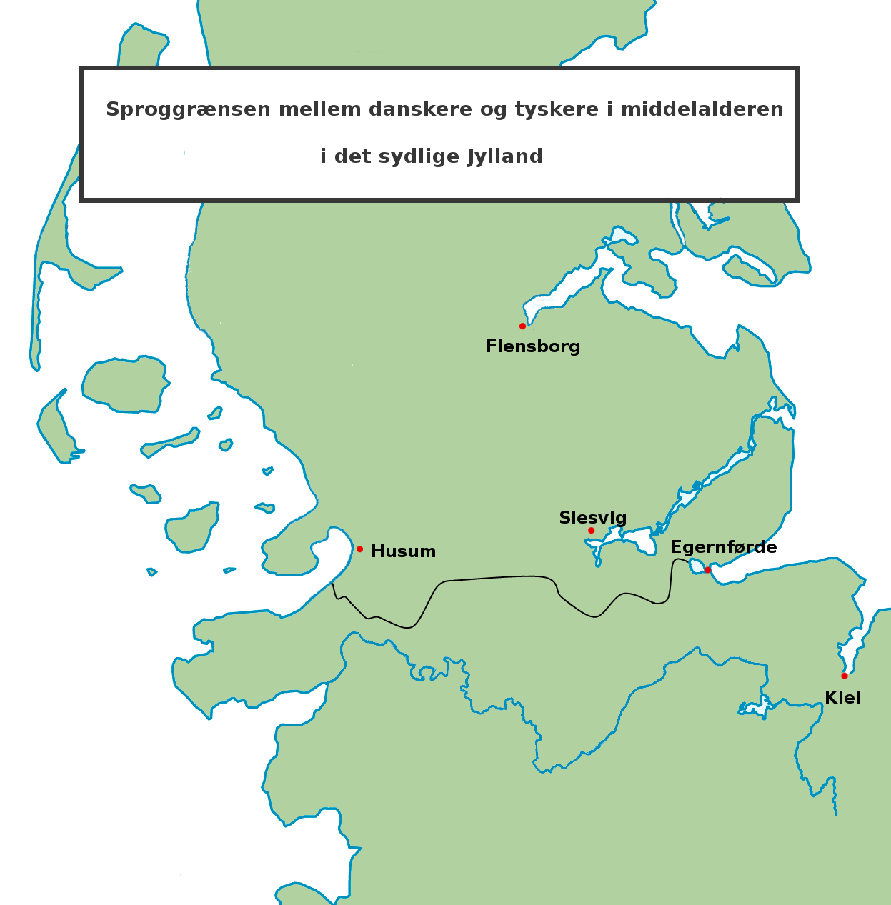 Historic language border between danish and german, reconstructed from place names Kilder/sources: - Henning Unverhau: Untersuchungen zur historischen Entwicklung des Landes zwischen Schlei und Eider im Mittelalter, Offa Band 69, Neumünster 1990 - Lars N. Henningsen: Dansk i Sydslesvig, Flensborg 2009, side 13